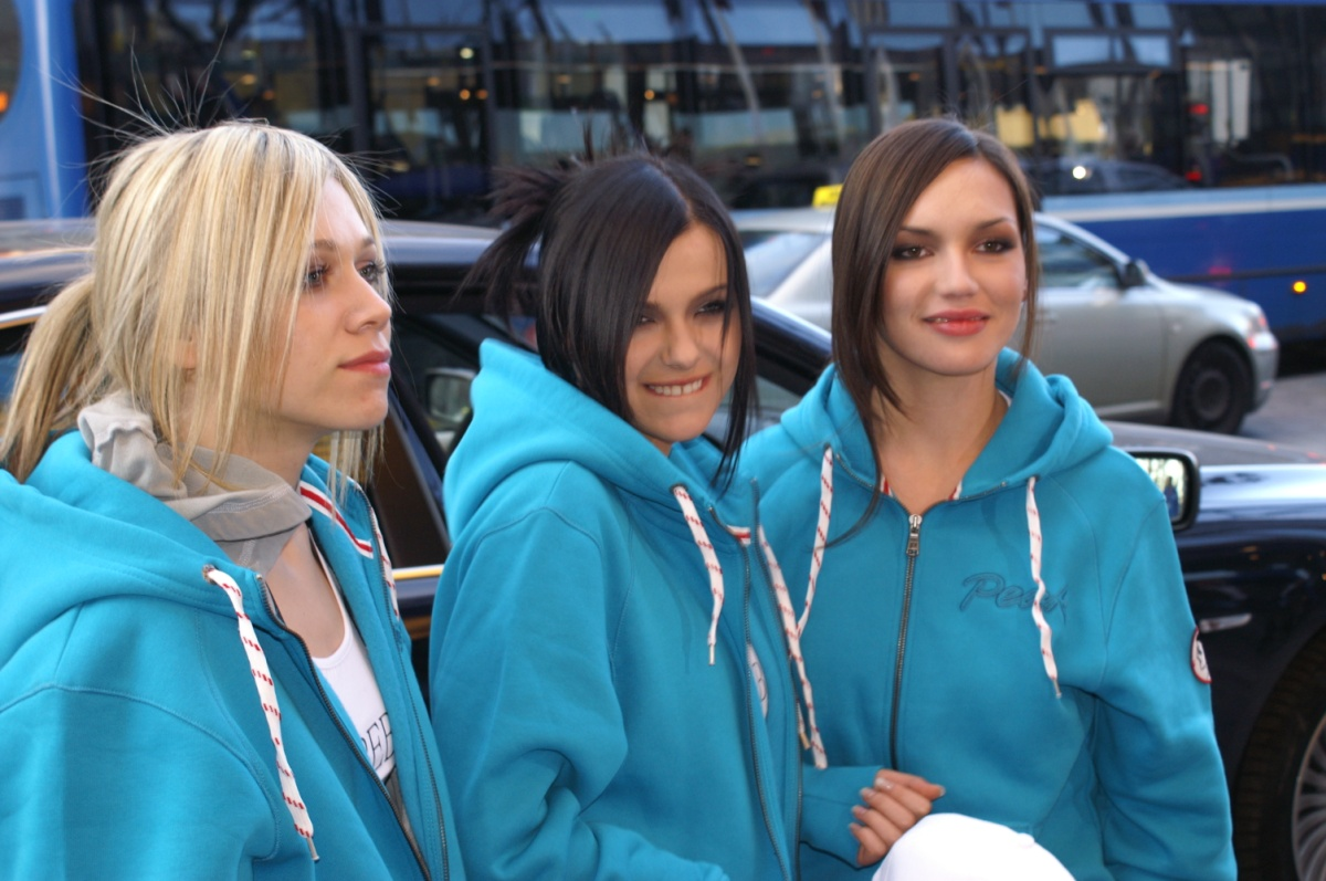 Russian Girlgroup Serebro during the Eurovision Song Contest Week in Helsinki (left to right: Marina Lizorkina, Elena Temnikova and Olga Seryabkina).